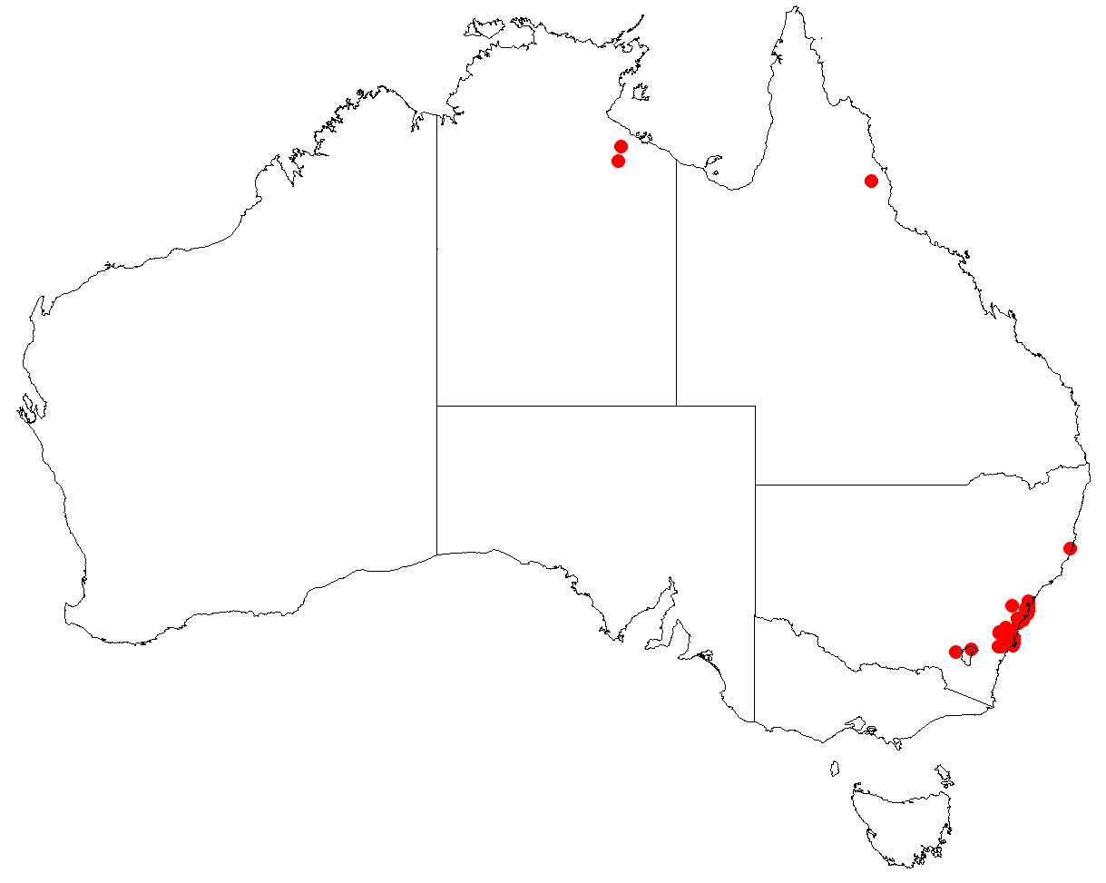 Haemodorum corymbosum Map from data downloaded from Australian Virtual Herbarium, 12 May 2017